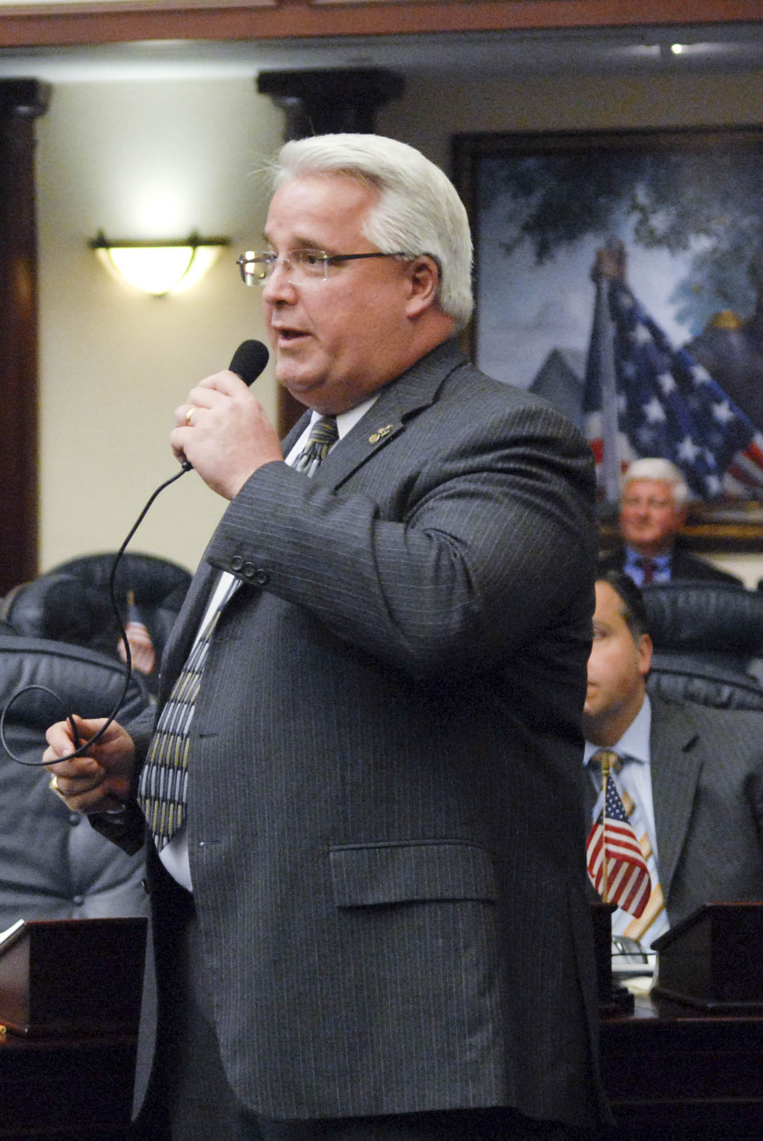 Rep. Kevin Ambler, R-Tampa, gestures while offering debate of a measure considered on the House floor April 23, 2009, in Tallahassee, Florida.